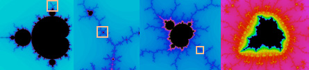 A zoom sequence of the Mandelbrot set showing quasi-self similarity.